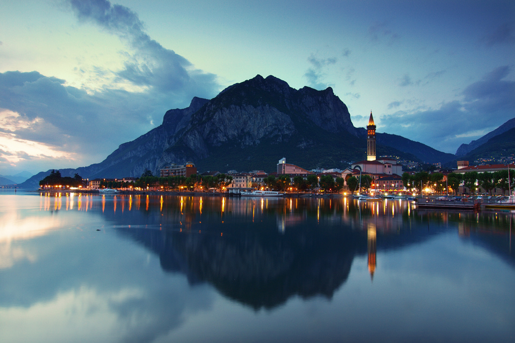 Lecco, Italy From the photographer: Used a Hitech 0.9 GND filter and Slik Pro 2 tripod.